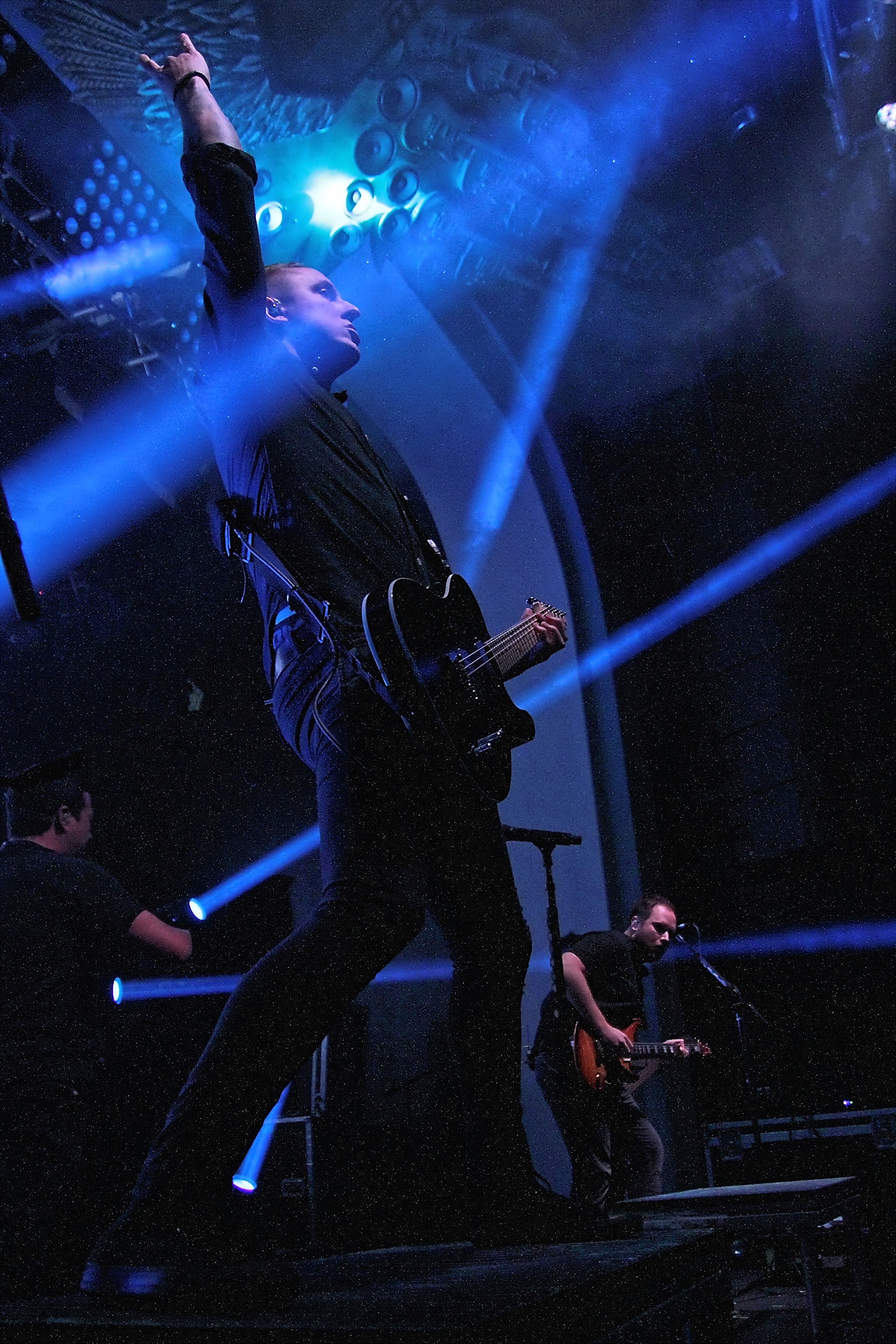 Livewire in Scottsdale AZ